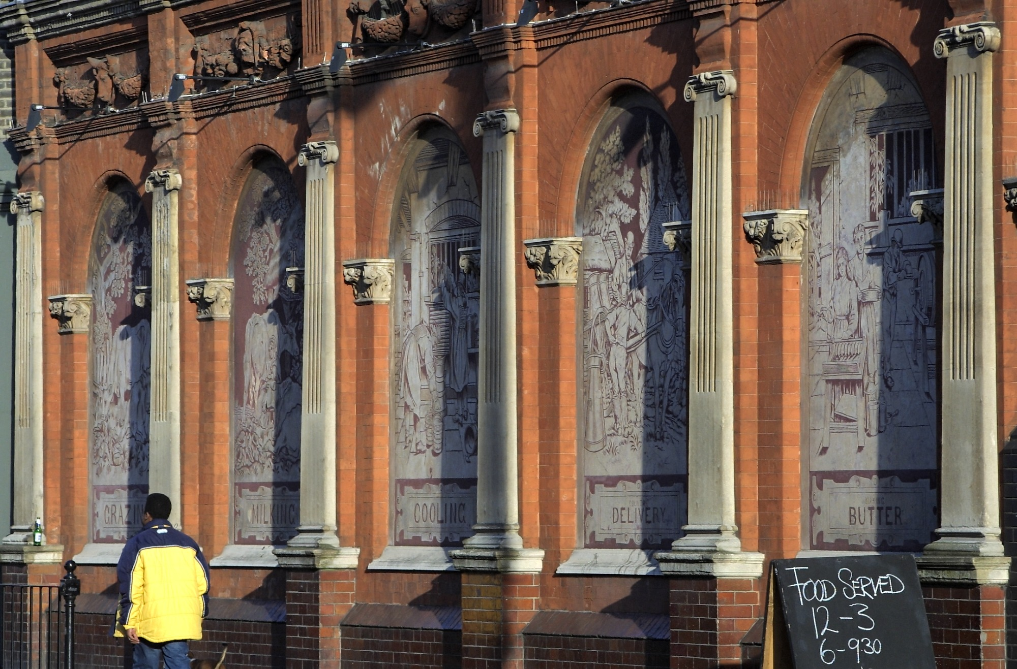 Sgraffito panels on the former Friern Manor Dairy. The image was taken with a Canon EOS D30 with a Sigma 70-300mm lens.